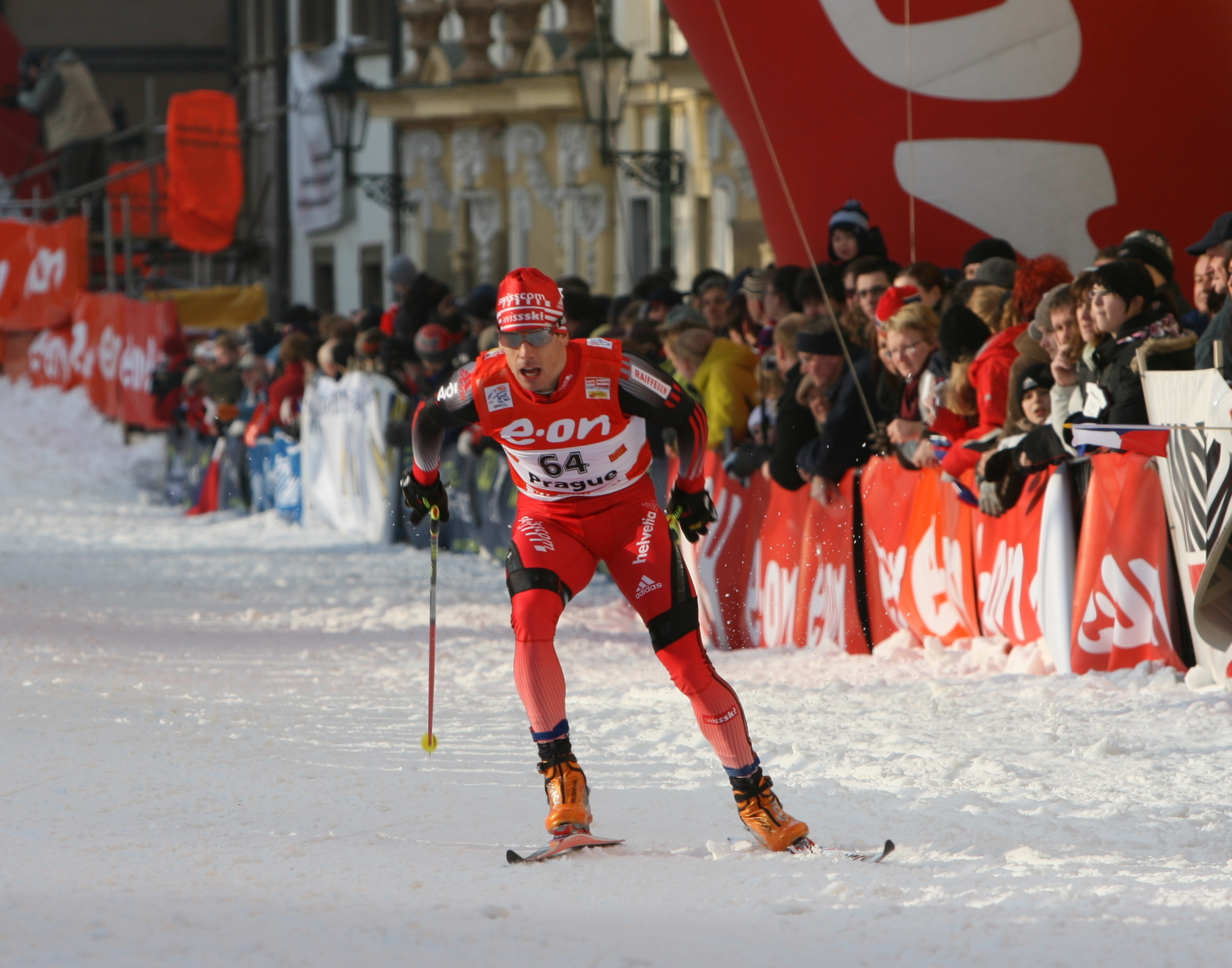 Swiss cross-country skier Gion-Andrea Bundi competing at Tour de Ski in Prague